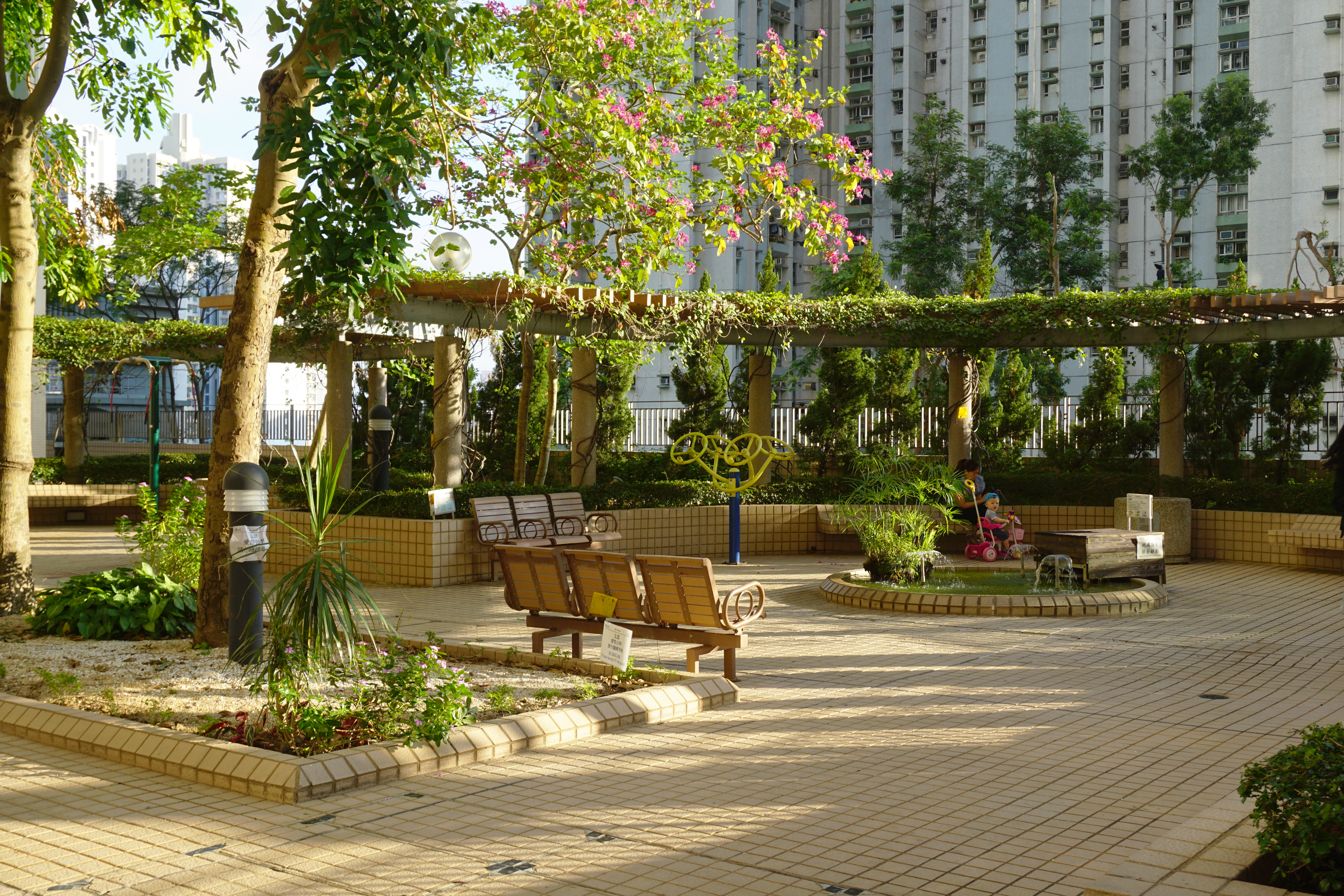 Tsz Oi Court in Tsz Wan Shan, Hong Kong.